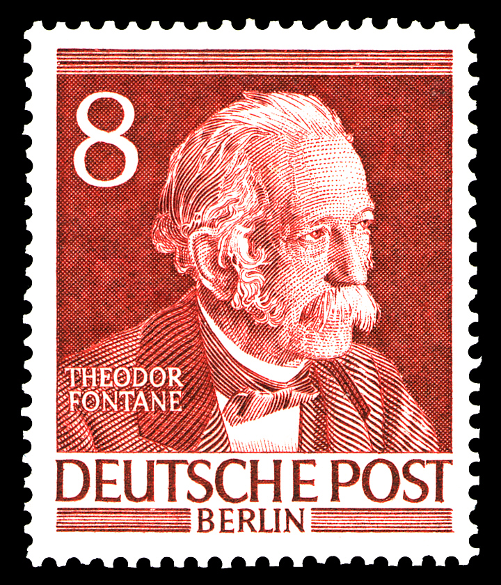 stamp series, men of the history of Berlin I, Theodor Fontane, (1819-1898)